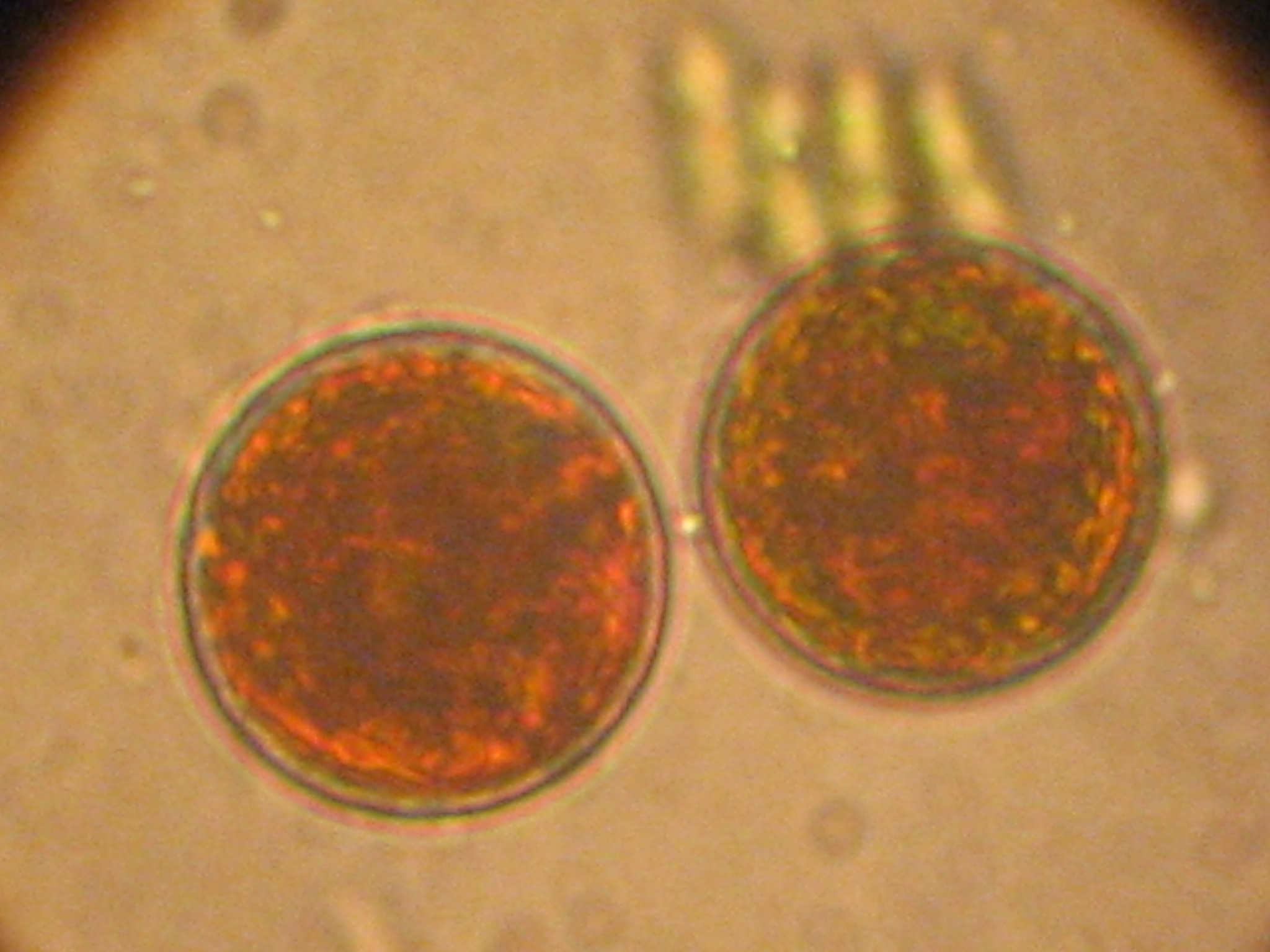 Haematococcus sp. (a green alga with red pigment)